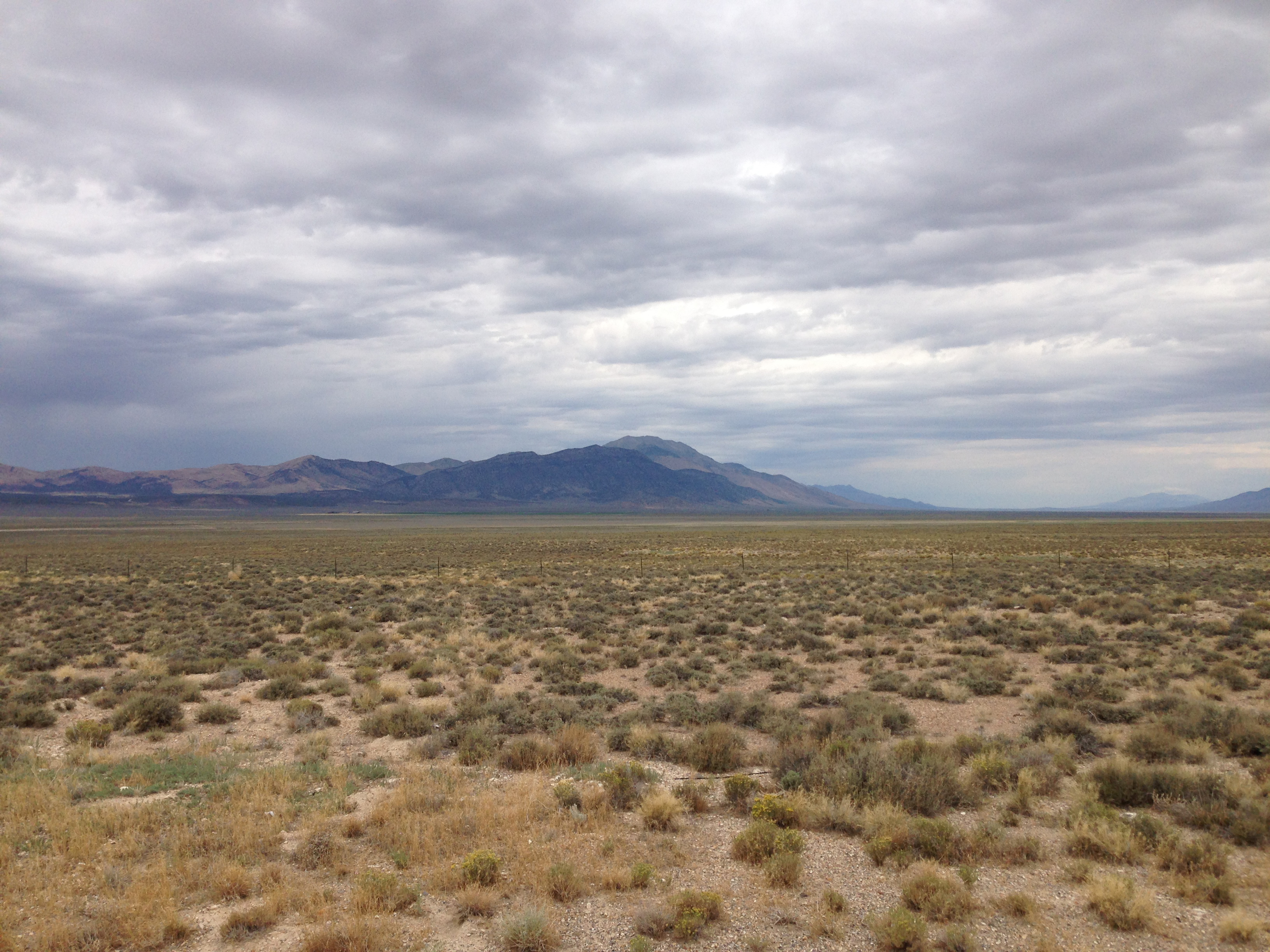 View of Diamond Peak from U.S. Route 50 about 8.1 miles east of the Eureka County line in White Pine County, Nevada